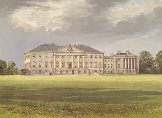 Nostell Priory from Morris's Country Seats of Noblemen and Gentlemen. (1880).